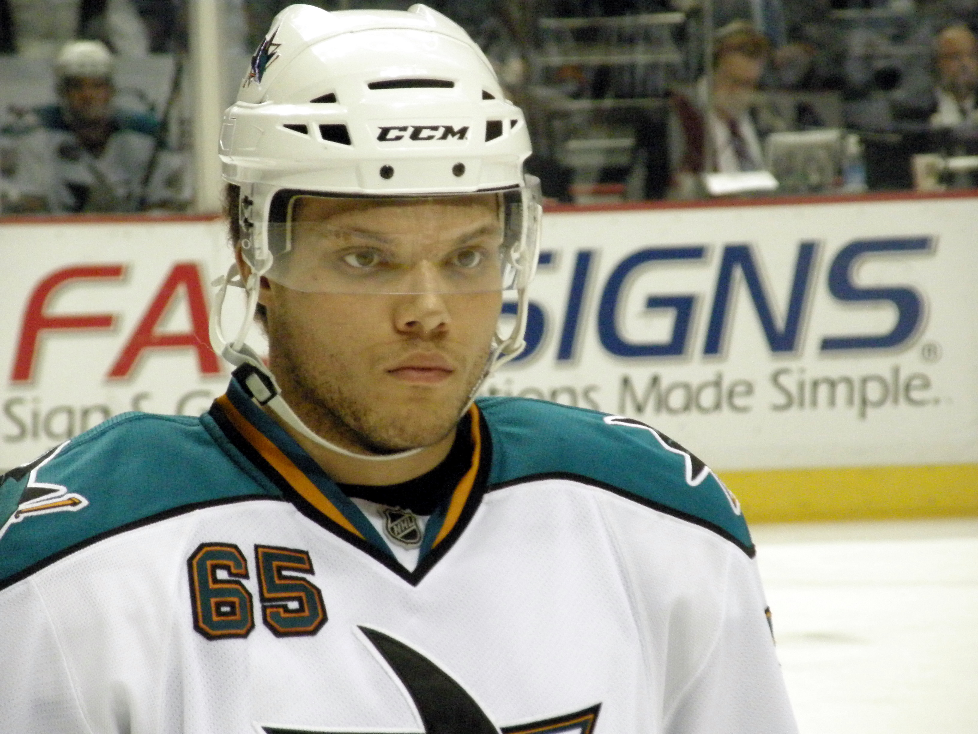 65, Derek Joslin, D, SJS San Jose Sharks at Nashville Predators, February 6, 2010